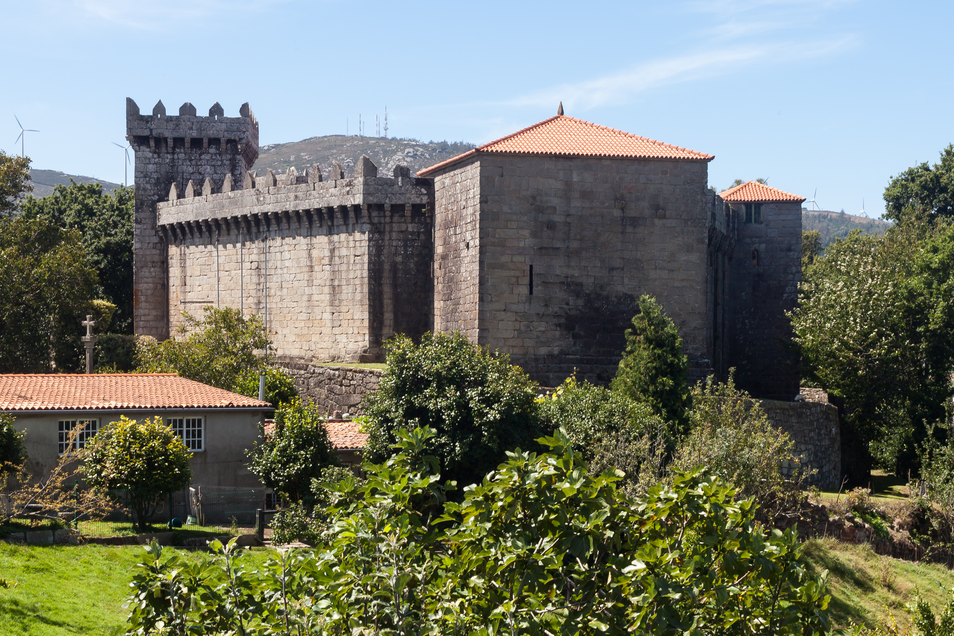 Castle of Vimianzo, Galicia (Spain).